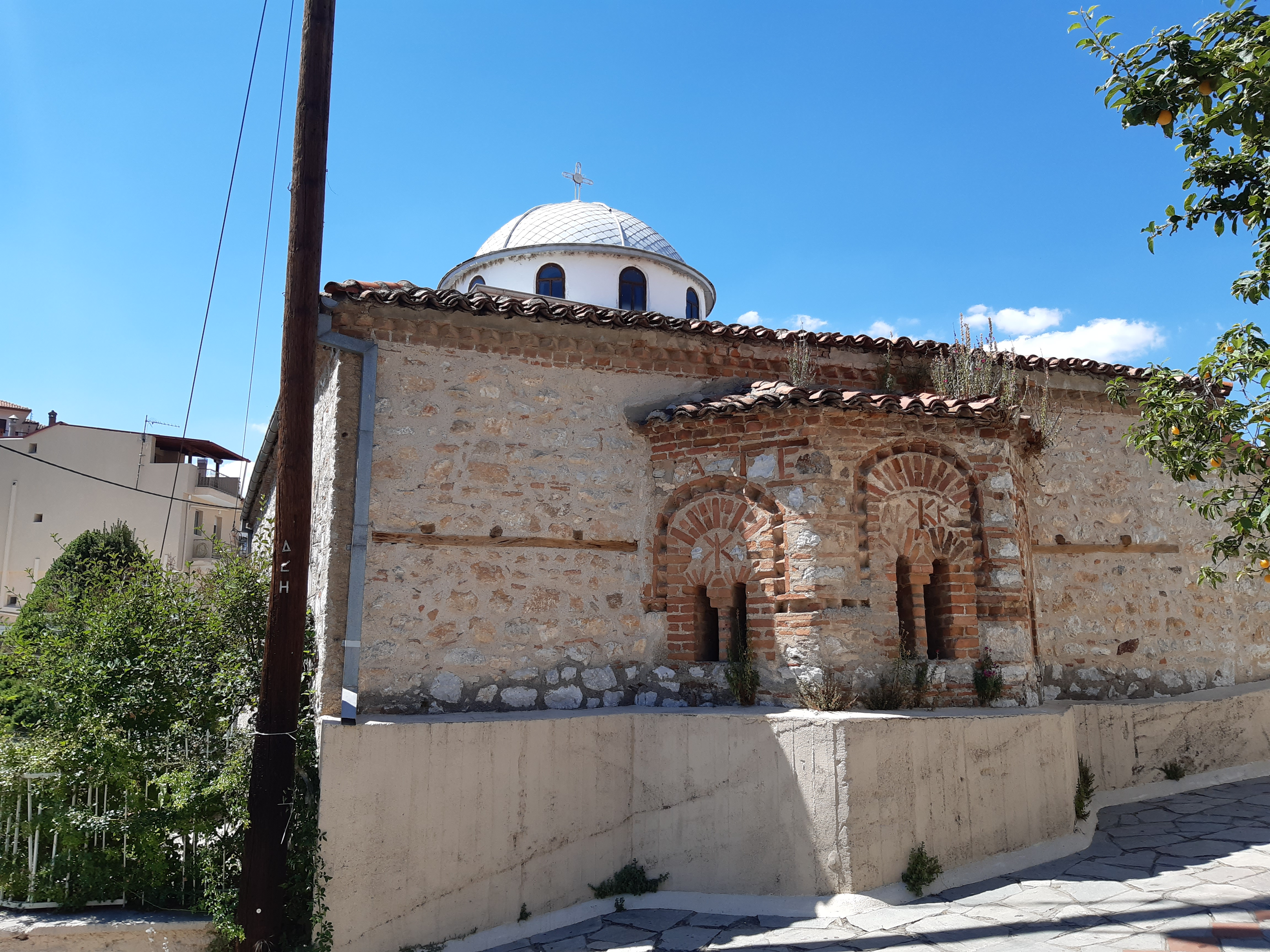 Saint Nicholas of Thomanos Church in August 2020